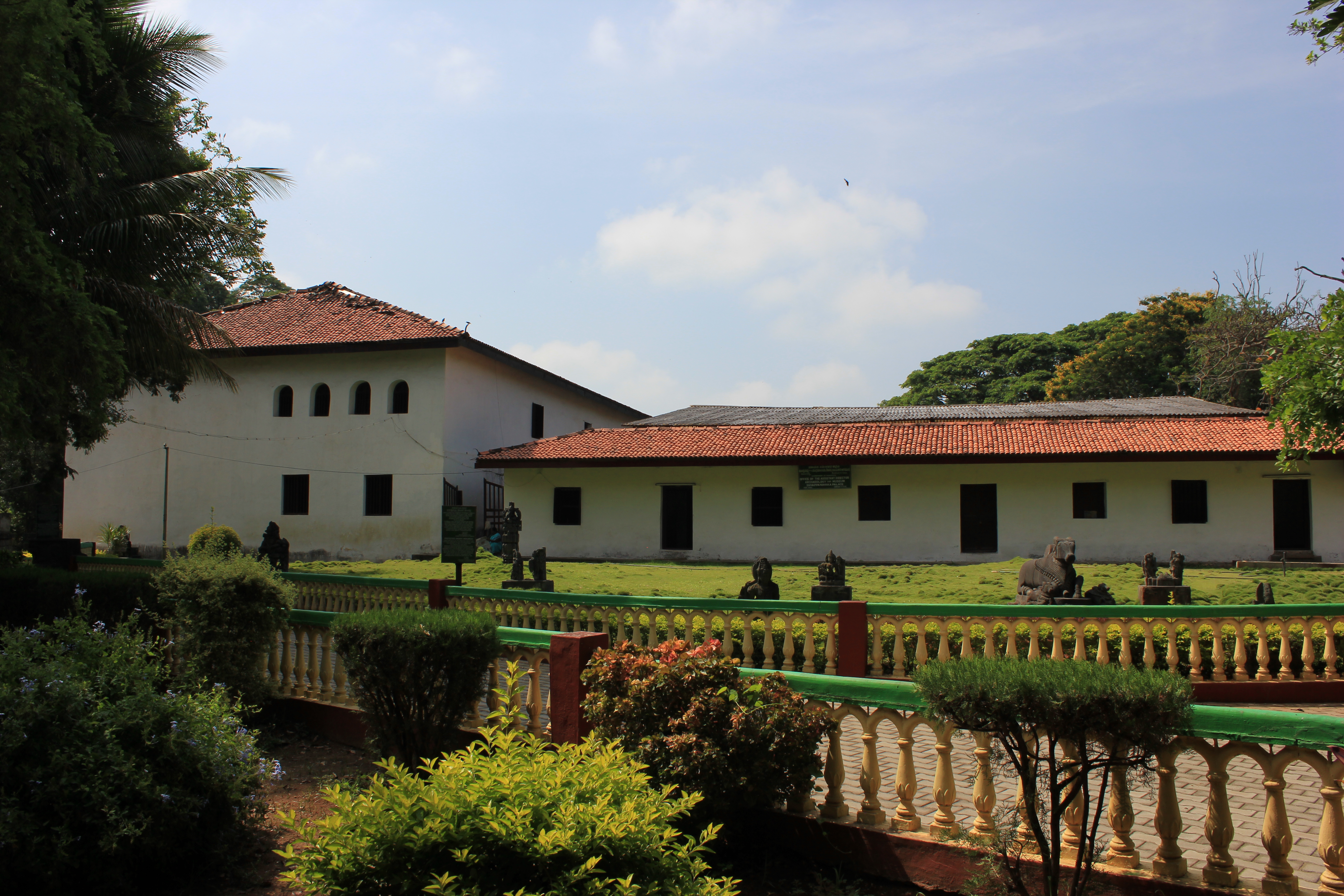 This photograph was taken at the Shivappa Nayaka palace in Shivamogga city (formerly Shimoga) in Karnataka state, India